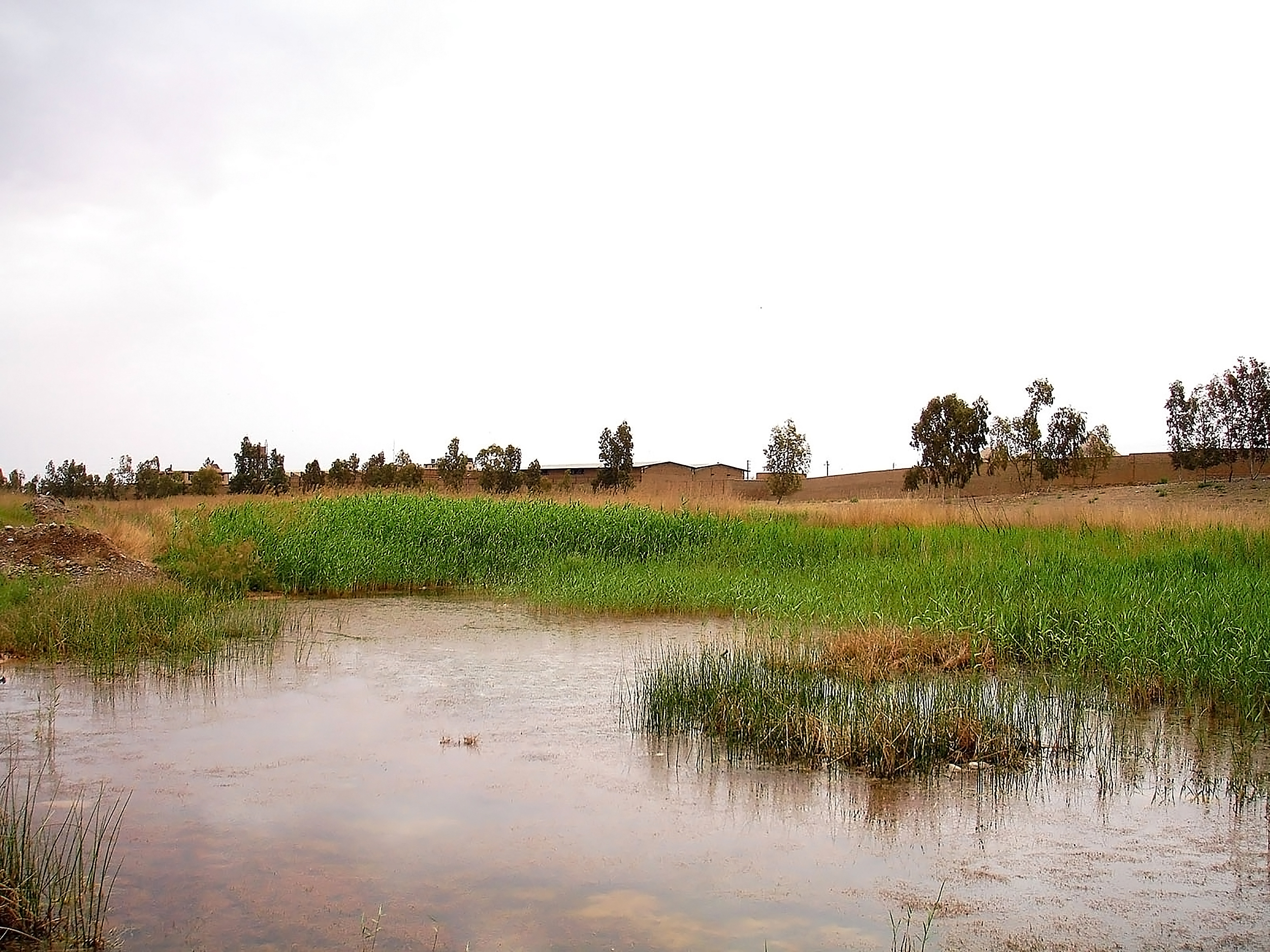 Qom also spelled as Ghom, is the eighth largest city in Iran. It lies 125 kilometres (78 mi) by road southwest of Tehran and is the capital of Qom Province. At the 2011 census its population was 1,074,036 (957,496 at the 2006 census, in 241,827 families), comprising 545,704 men and 528,332 women. It is situated on the banks of the Qom River. Qom is considered holy by Shiʿa Islam, as it is the site of the shrine of Fatema Mæ'sume, sister of Imam `Ali ibn Musa Rida (Persian Imam Reza, 789–816 AD). The city is the largest center for Shiʿa scholarship in the world, and is a significant destination of pilgrimage. Qom is famous for a brittle toffee called “Sohan” (Persian:سوهان), considered a souvenir of the city and sold by 2,000 to 2,500 “Sohan” shops.